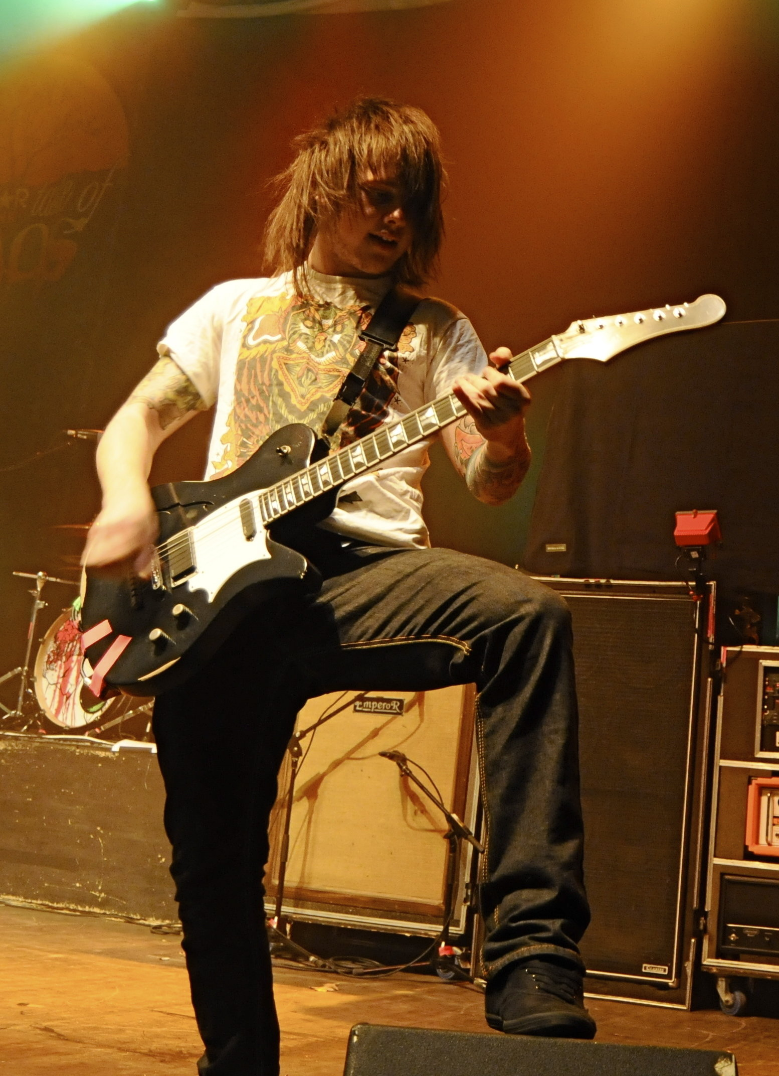 Lee Malia performing with Bring Me The Horizon in 2007.